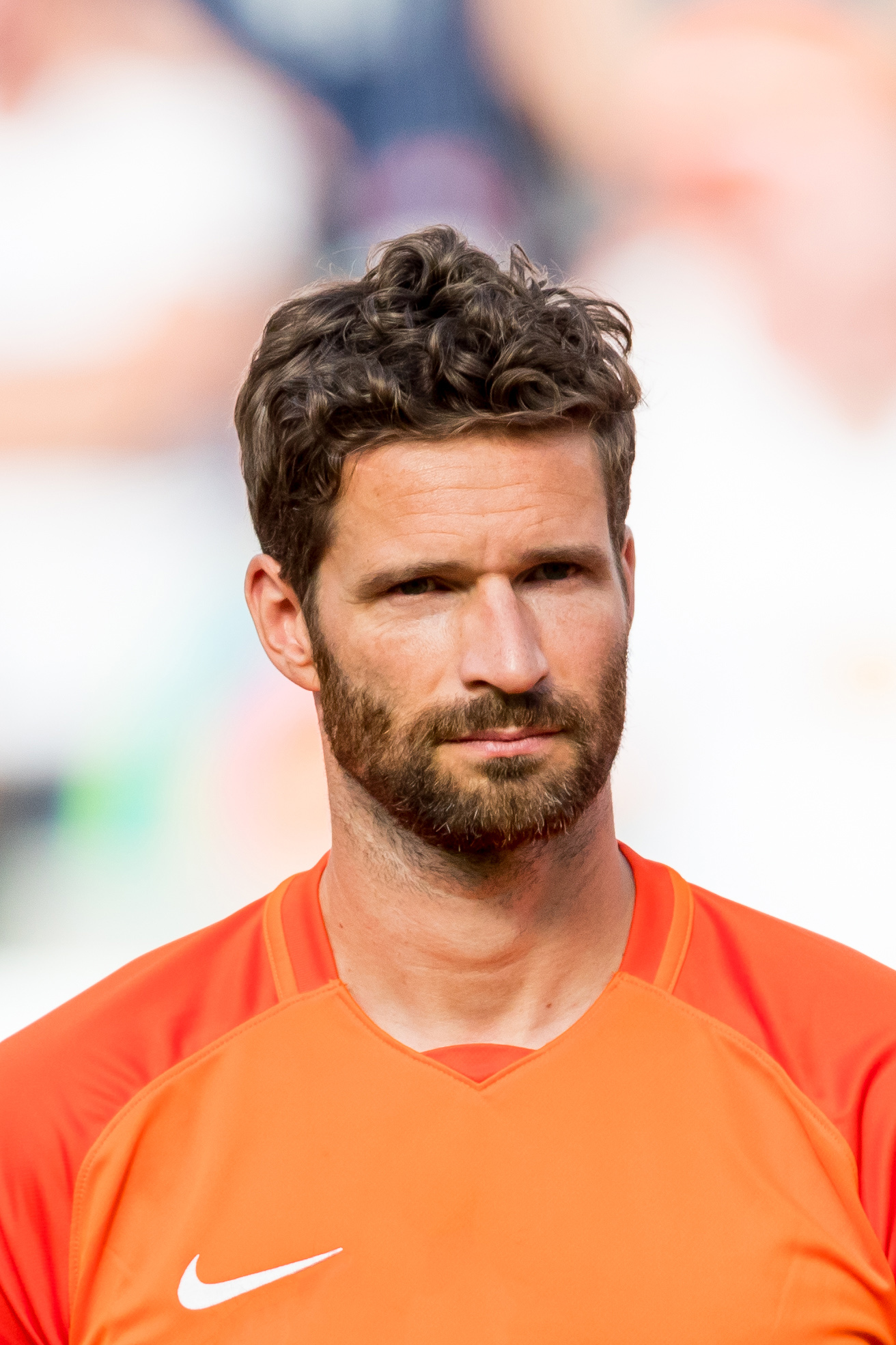 Arne Friedrich during Champions for Charity at BayArena, Leverkusen, Nordrhein-Westfalen, Germany on 2019-07-21, Photo: Sven Mandel